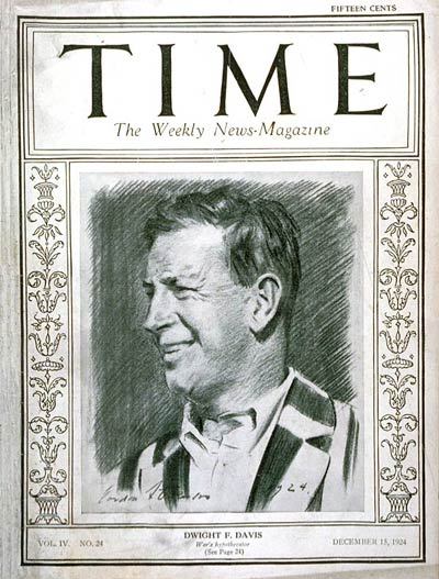 TIME Magazine Cover Featuring Dwight F. Davis (15 Dec 1924)